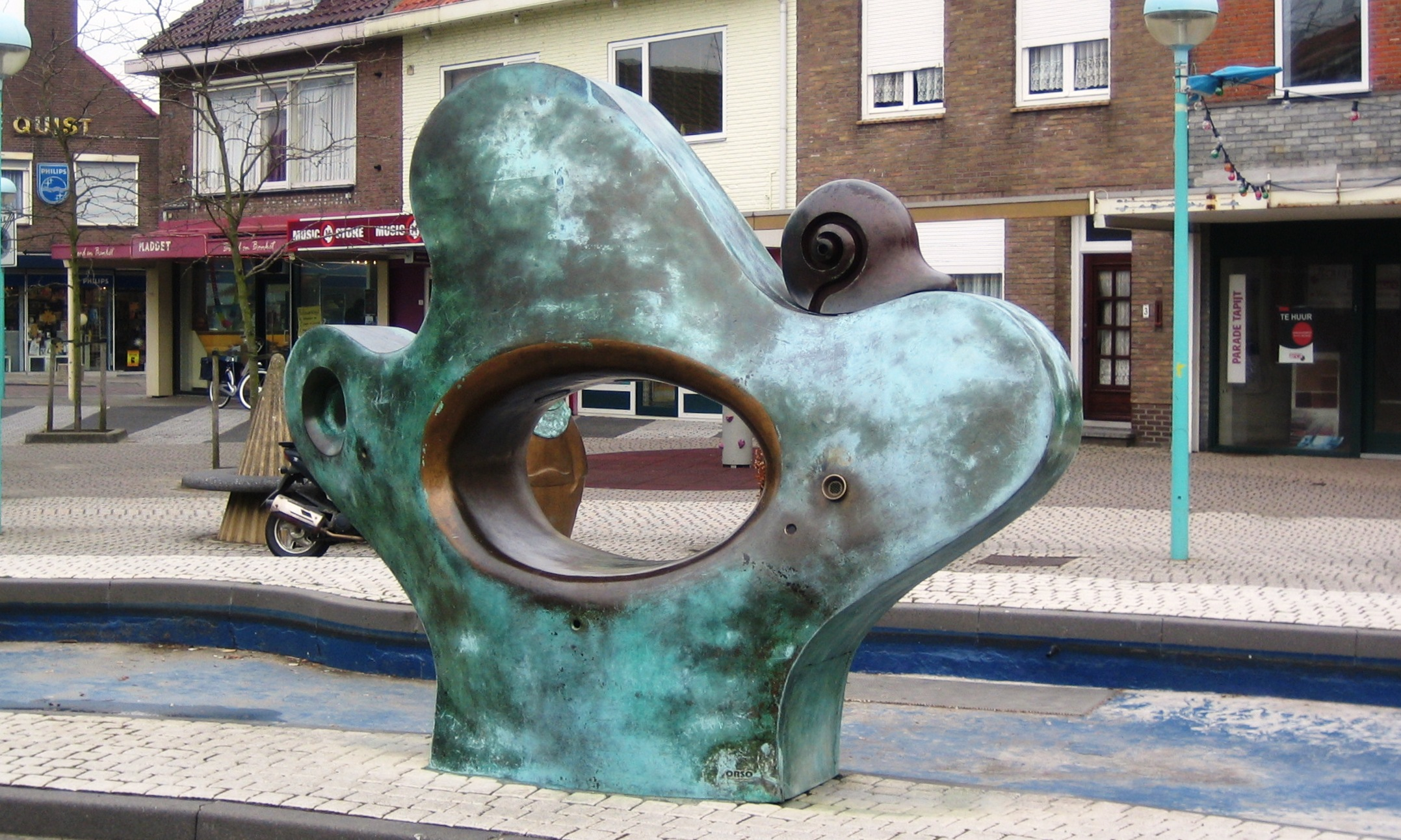 Oostburg Kunstwerk. Designed by Orso Design (Belgium) - Marc De Jonghe. Around 2004?